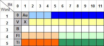 Visualization of data format of Quotron II, described in Annex 2 of Montgomery Phister, Jr.: Quotron II: An Early Multiprogrammed Multiprocessor for the Communication of Stock Market Data, Annals of the History of Computing, Vol. 11, No. 2 (Summer 1989) p. 109–126.